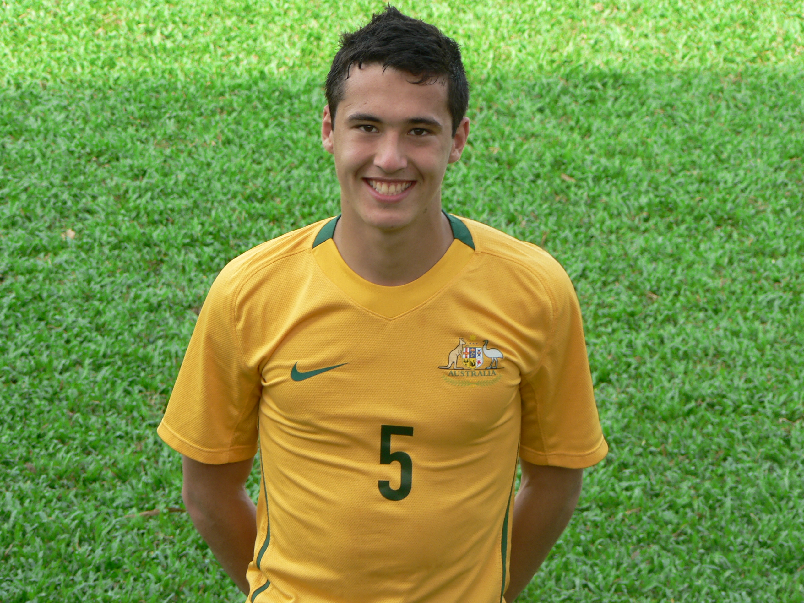 Image of Jason Davidson, an Australian football (soccer) player.